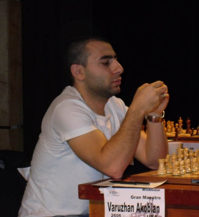 GM Varuzhan Akobian United States of America, Merida 2008.